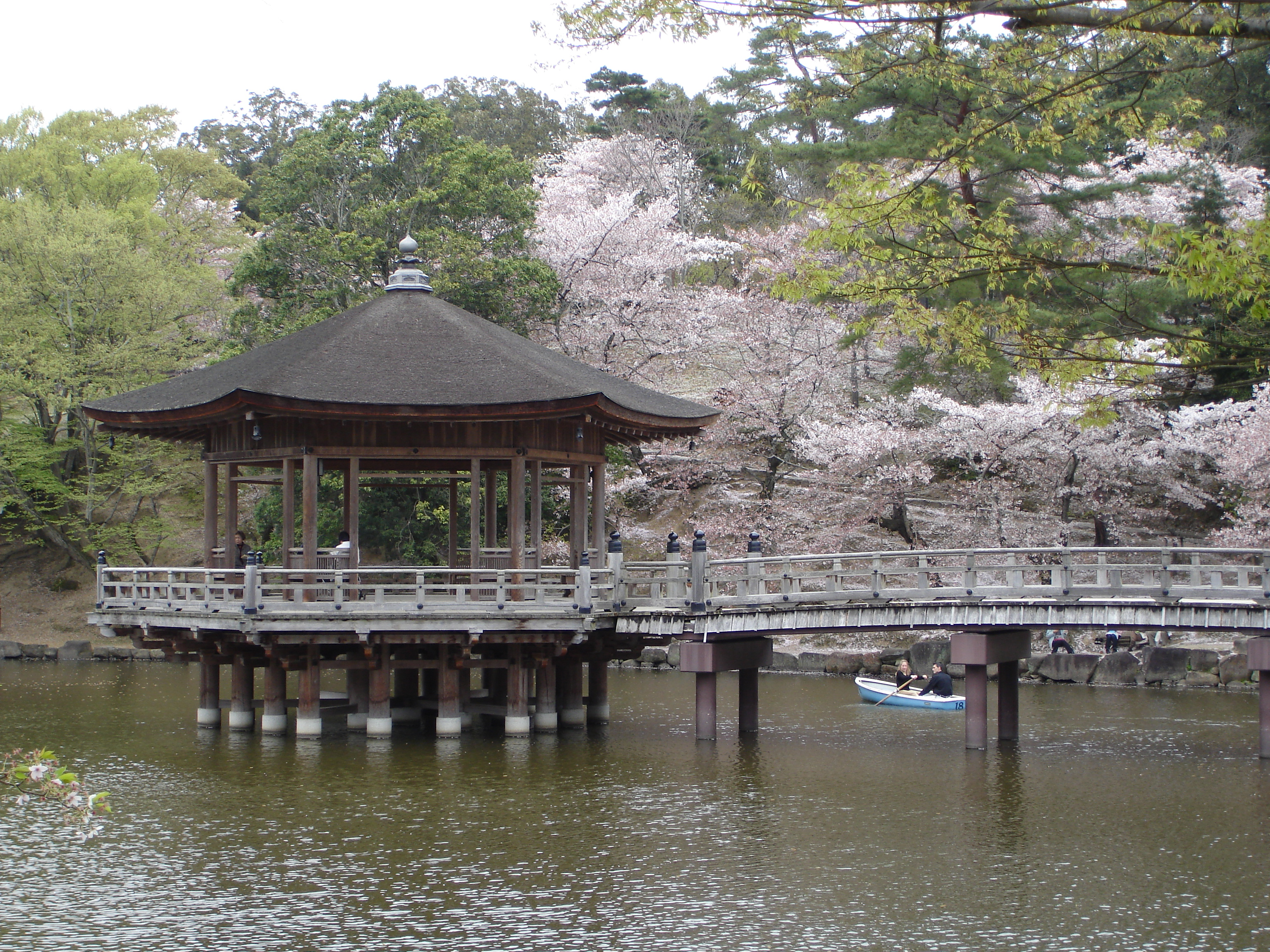 Cherry blossom in Nara